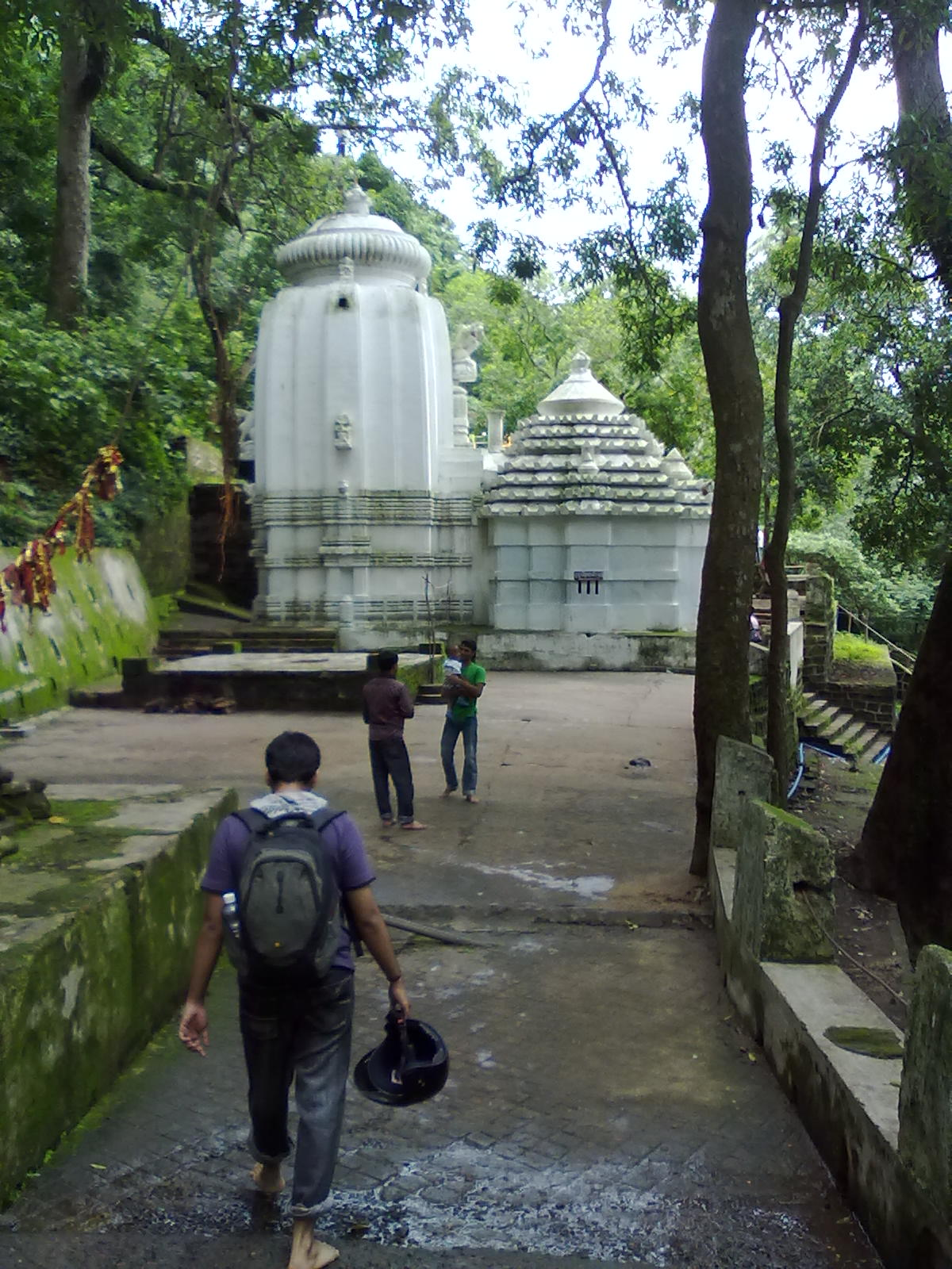 Kapilas temple is situated in Dhenkanal district of Odisha This media file is uploaded with Odia loves Wikipedia This image was selected as Picture of the day on the Odia Wikipedia for 2011-06-30.